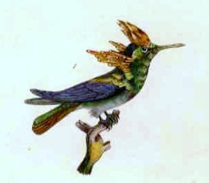 Tufted Coquette (Lophornis ornatus)